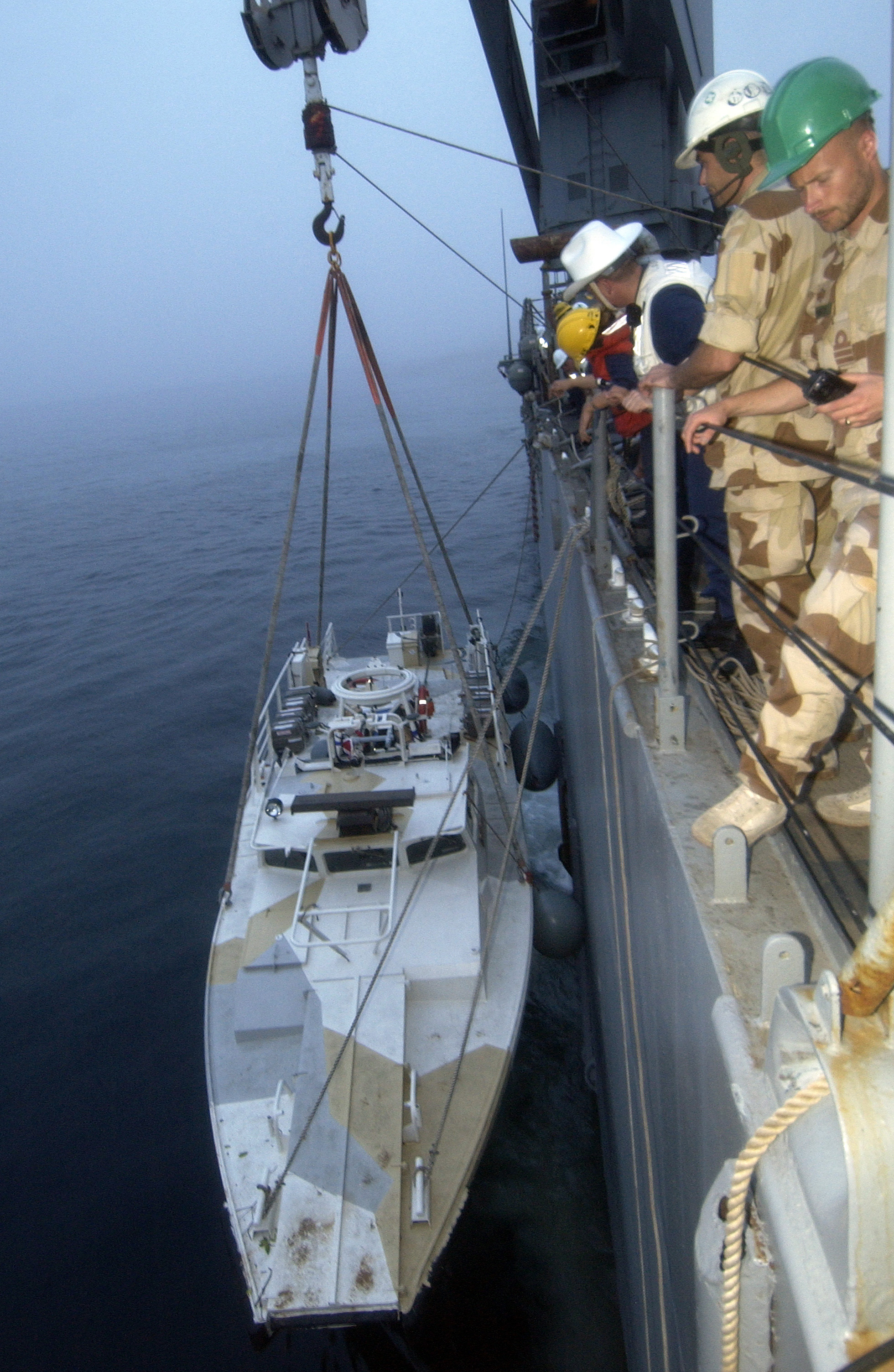 West Africa (Nov. 12, 2005) - U.S. and Royal Norwegian Navy personnel monitor a Norwegian S90N combat boat as it is lifted aboard the U.S. Navy's dock landing ship USS Gunston Hall (LSD-44) off the coast of West Africa. U.S. Air Force photo by Master Sgt. Steve Faulisi (RELEASED)